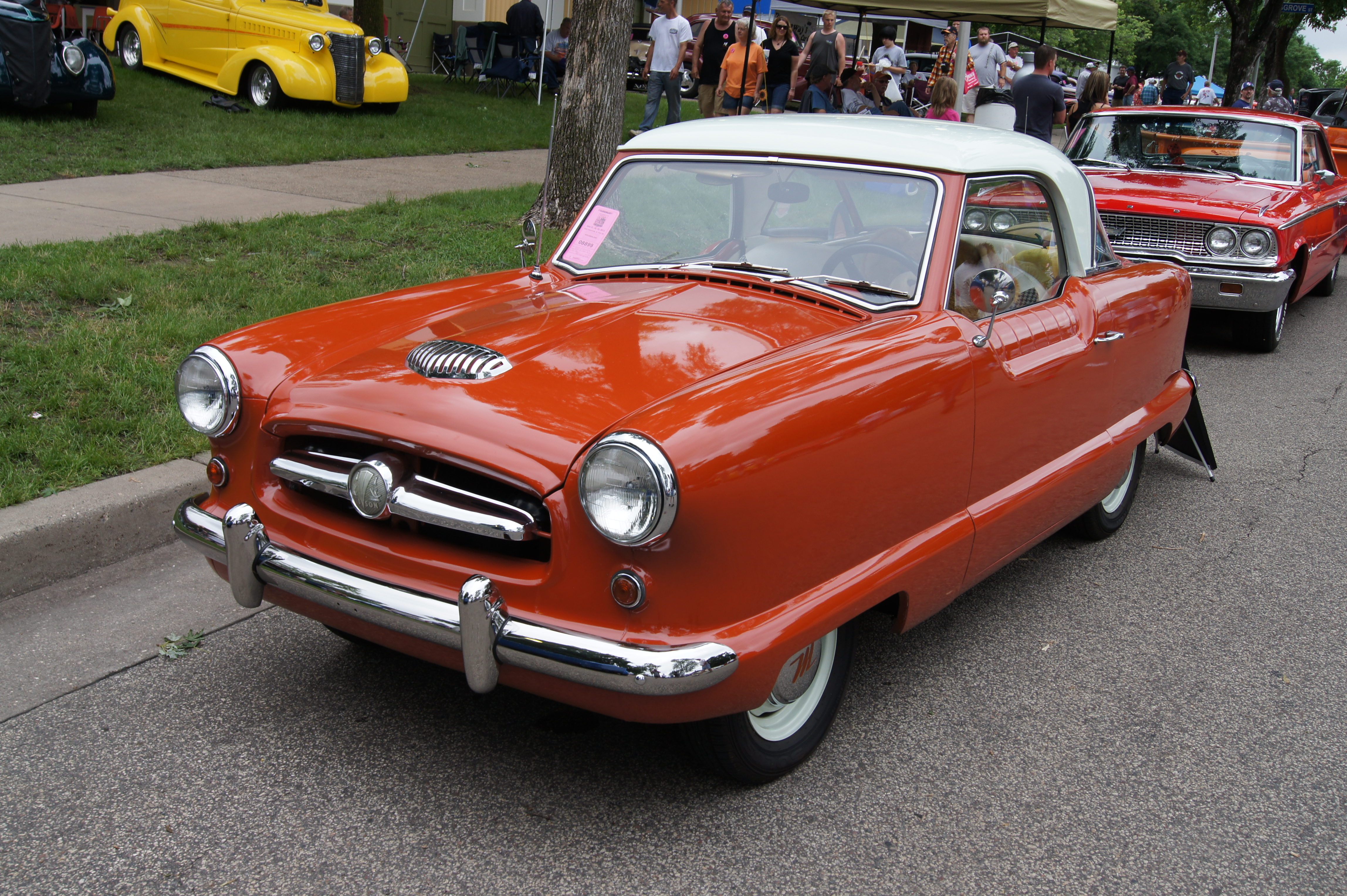 MSRA “BACK TO THE 50′s” 40th ANNIVERSARY June 21-23, 2013 State Fairgrounds St. Paul Minnesota More Car Pictures